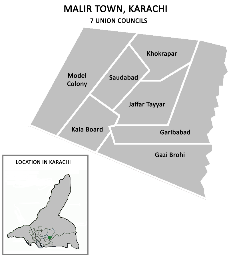 Union councils of Malir Town, Karachi.